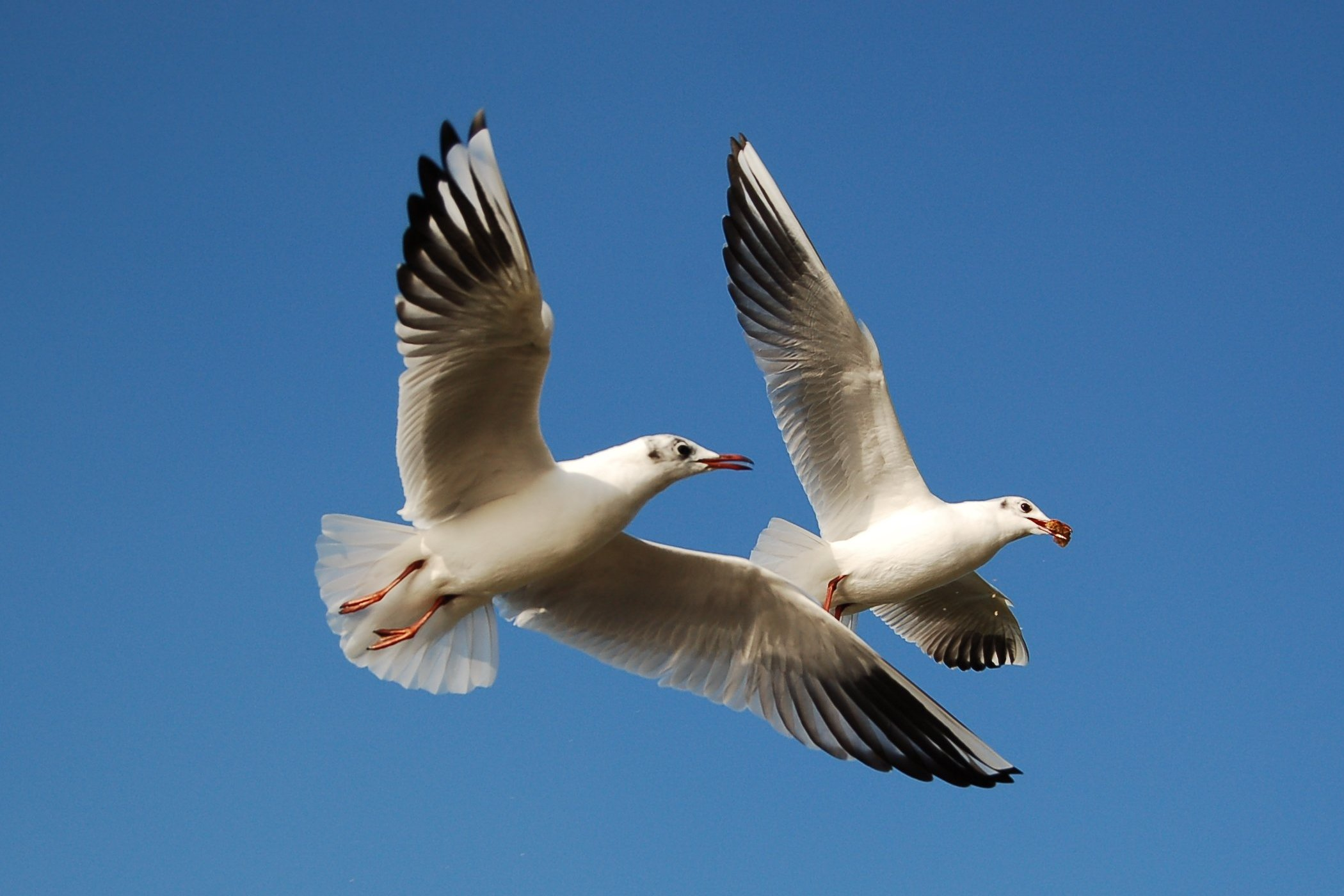 Black-headed Gulls in winter in a London park.